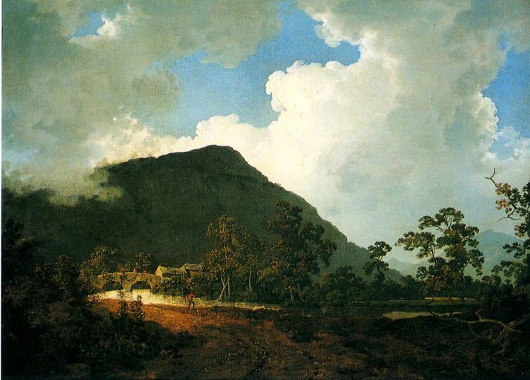 Joseph Wright of Derby. Landscape near Bedgellert [=Beddgelert], North Wales. c.1790-5. Oil on canvas. 57.1 x 76.3. Private collection.